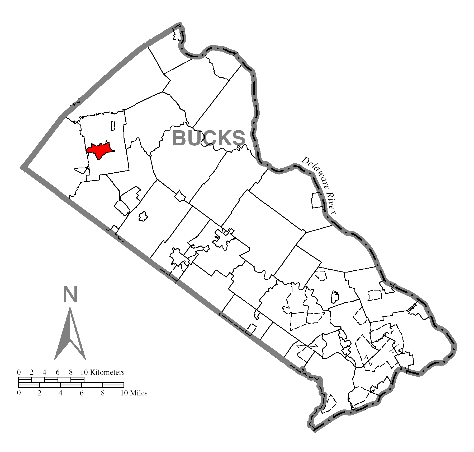 A map of Bucks County showing Quakertown, Pennsylvania (alternate) highlighted on the map.